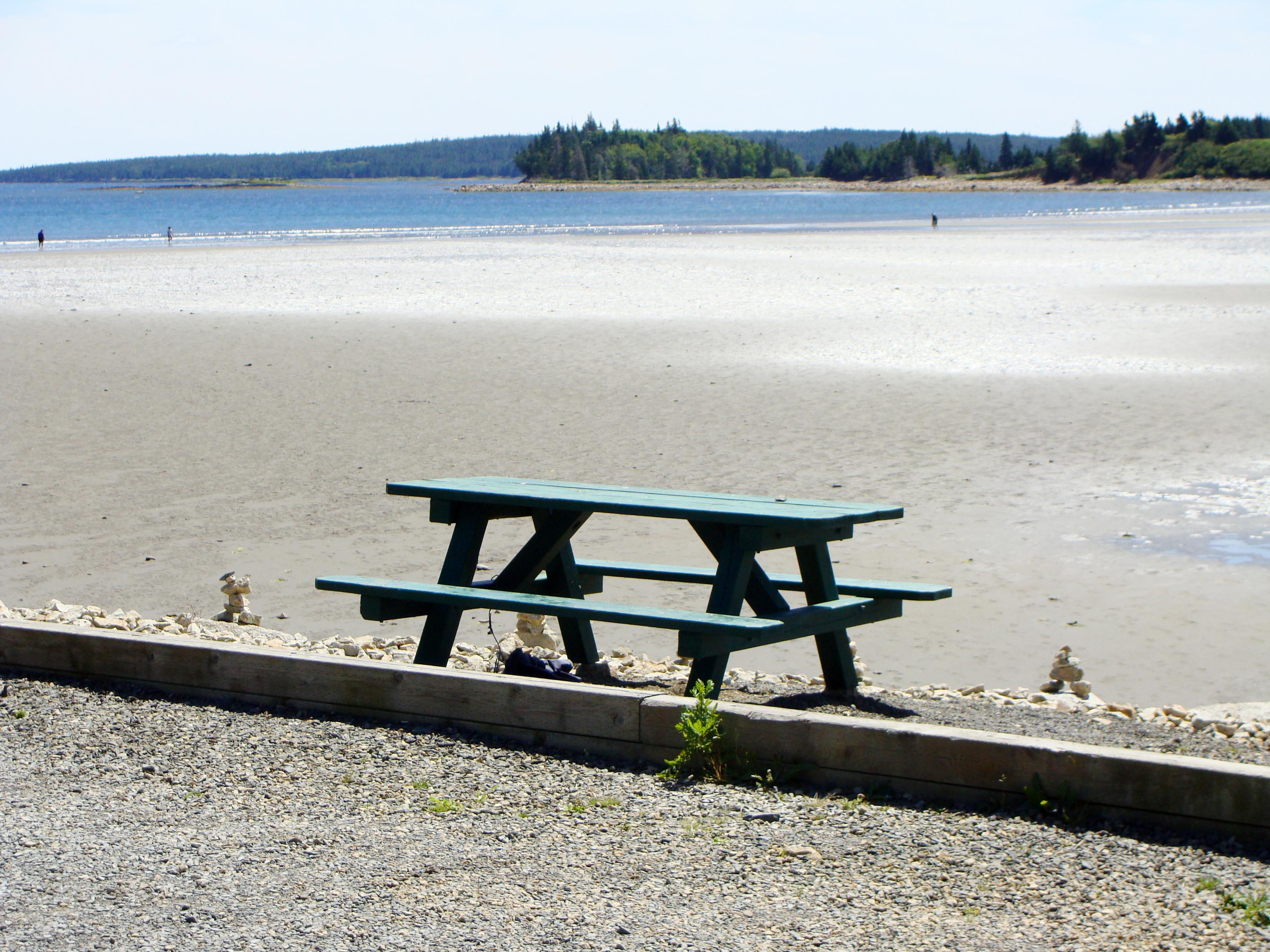 Sand Dollar Beach at Low Tide